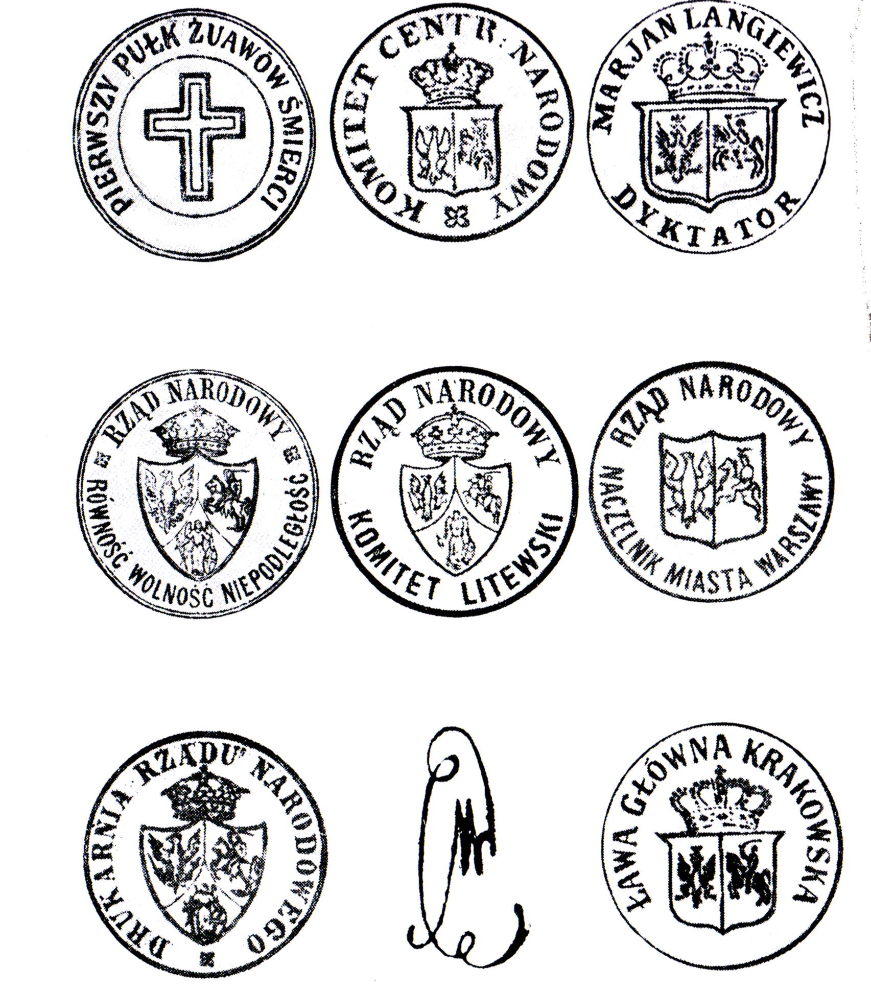 Seals of January Uprising